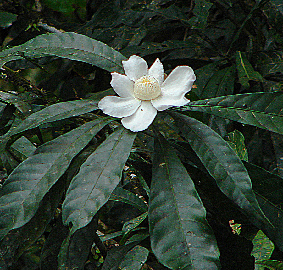 Native to northern South America, and known as Palo de Muerto due to rotting flesh smell. Photo from Colombian Amazon. In context at